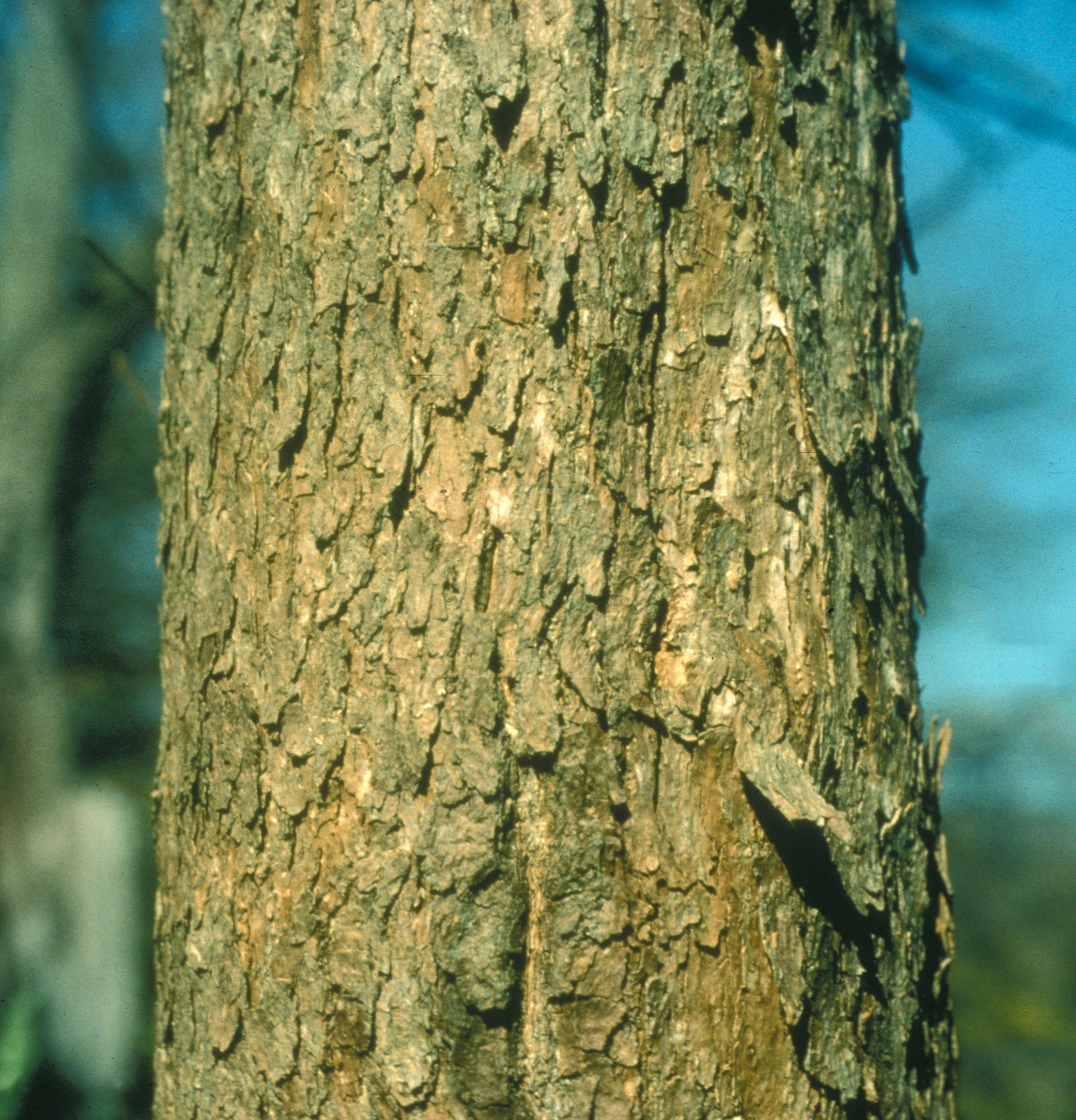 Fraxinus quadrangulata bark